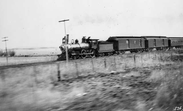 Passenger train of the Atchison, Topeka and Santa Fe Railway, around 1895